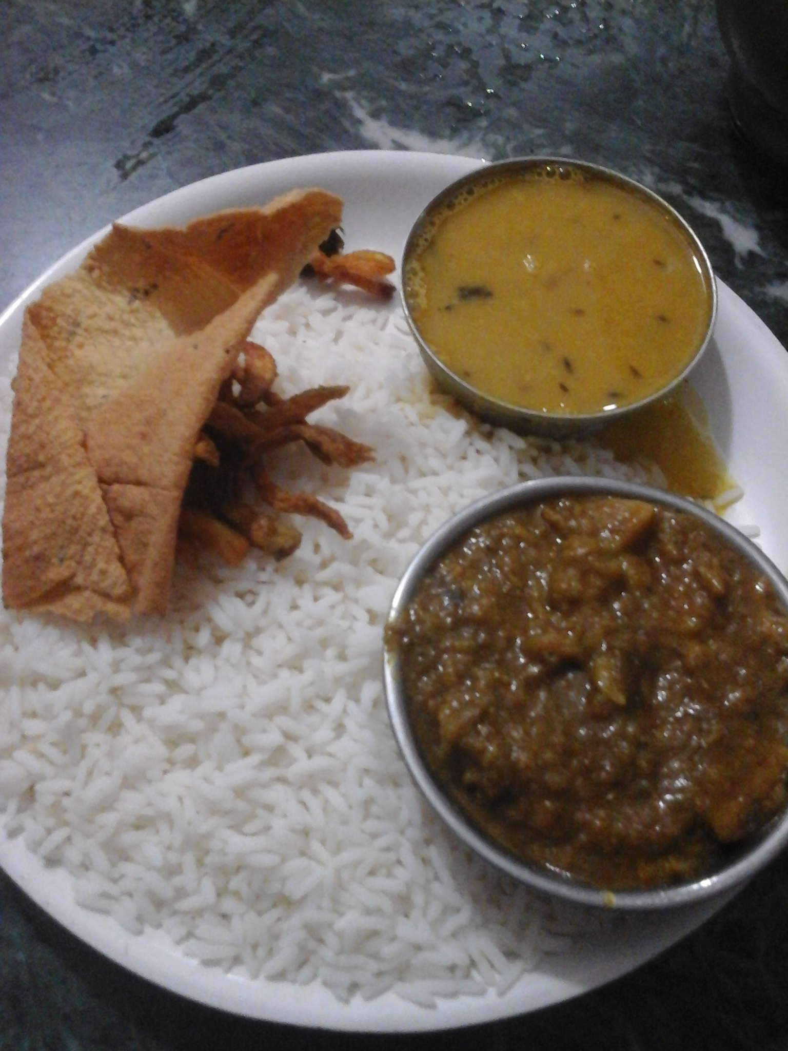 Cooked rice and Chicken curry, with fried papa, dal